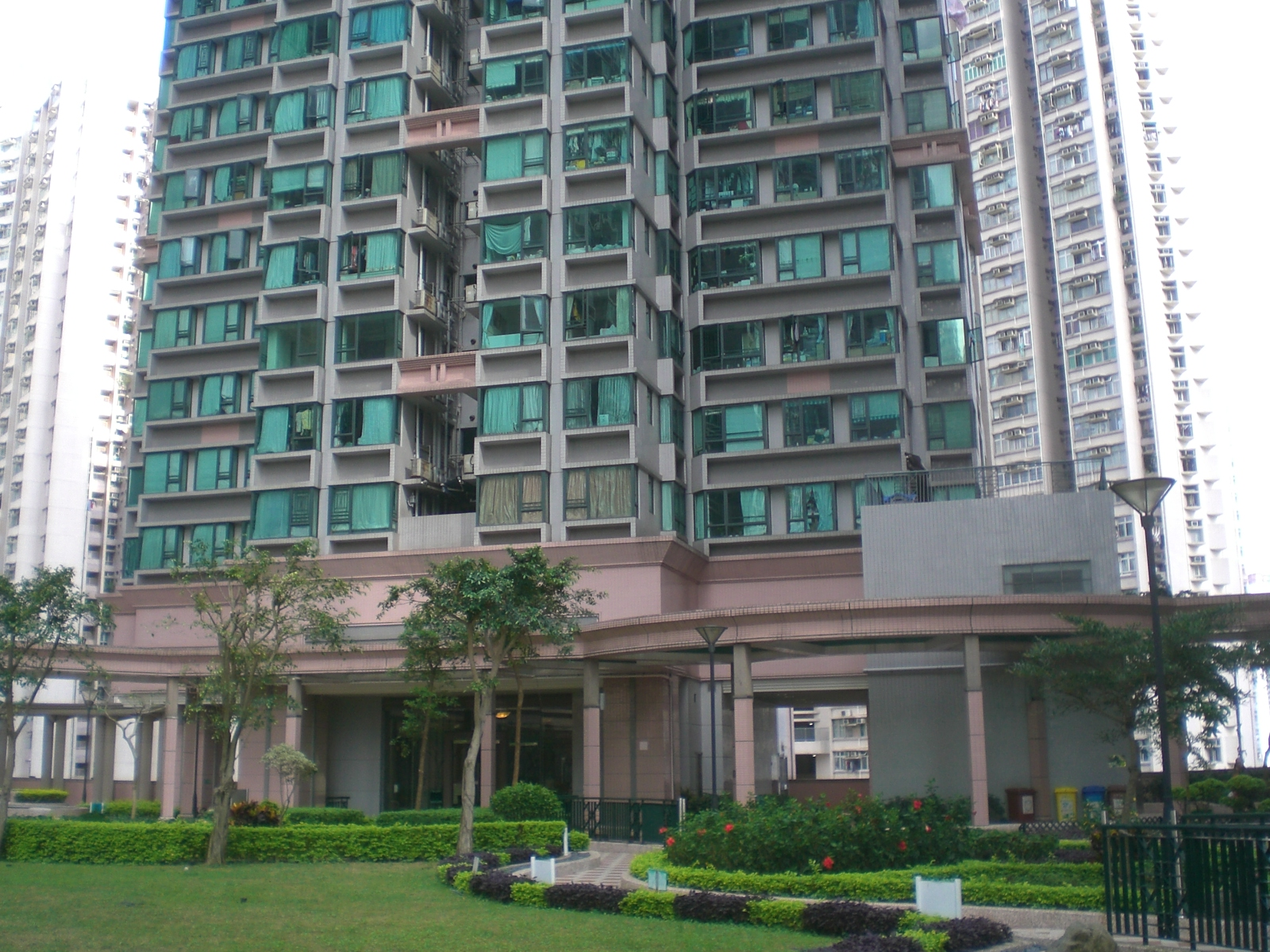 將軍澳 2期